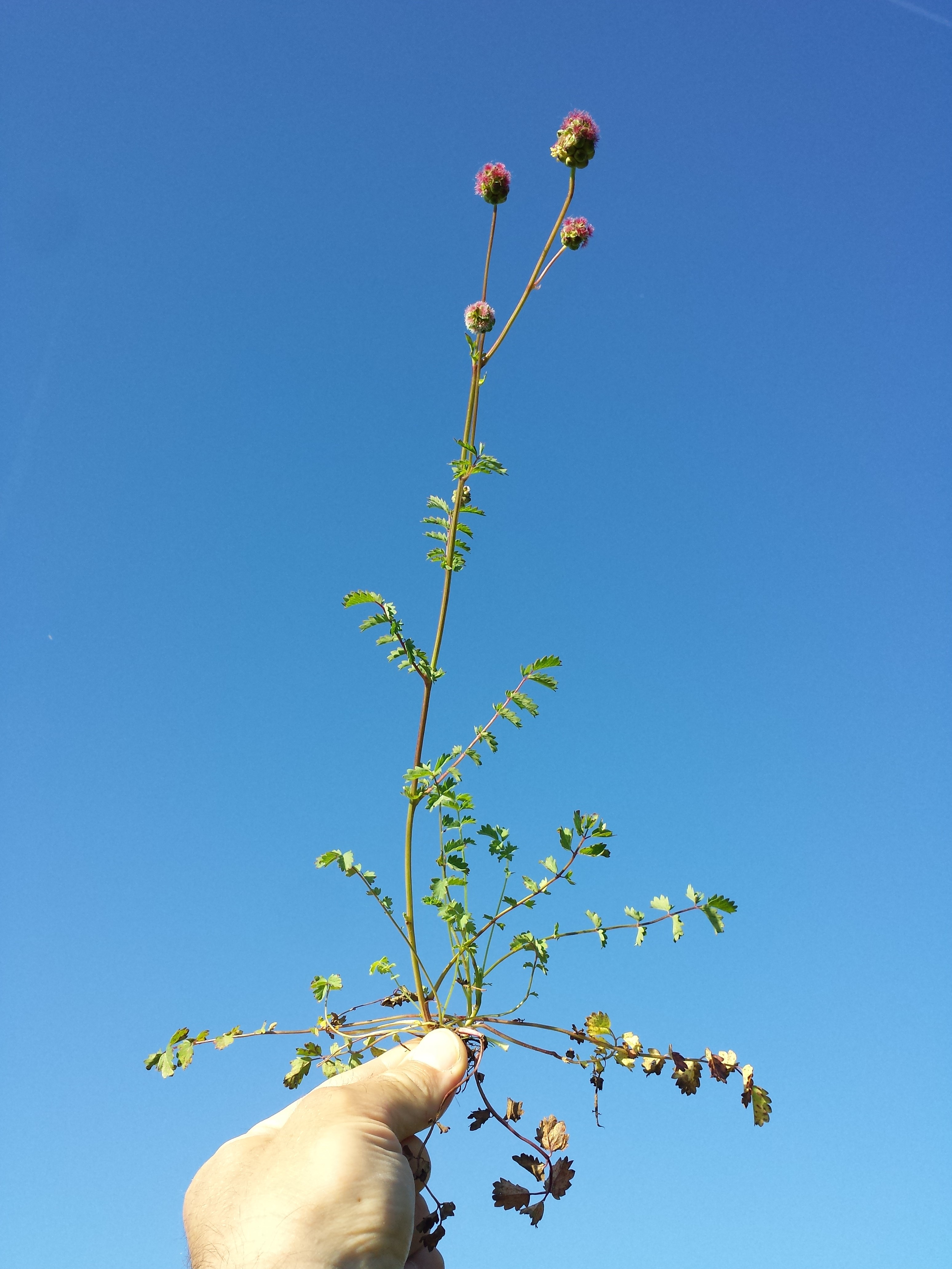 Habitus Taxonym: Sanguisorba minor subsp. minor ss Fischer et al. EfÖLS 2008 ISBN 978-3-85474-187-9 Location: next to Strebersdorf, Floridsdorf, Vienna - ca. 160 m a.s.l. Habitat: fallow land